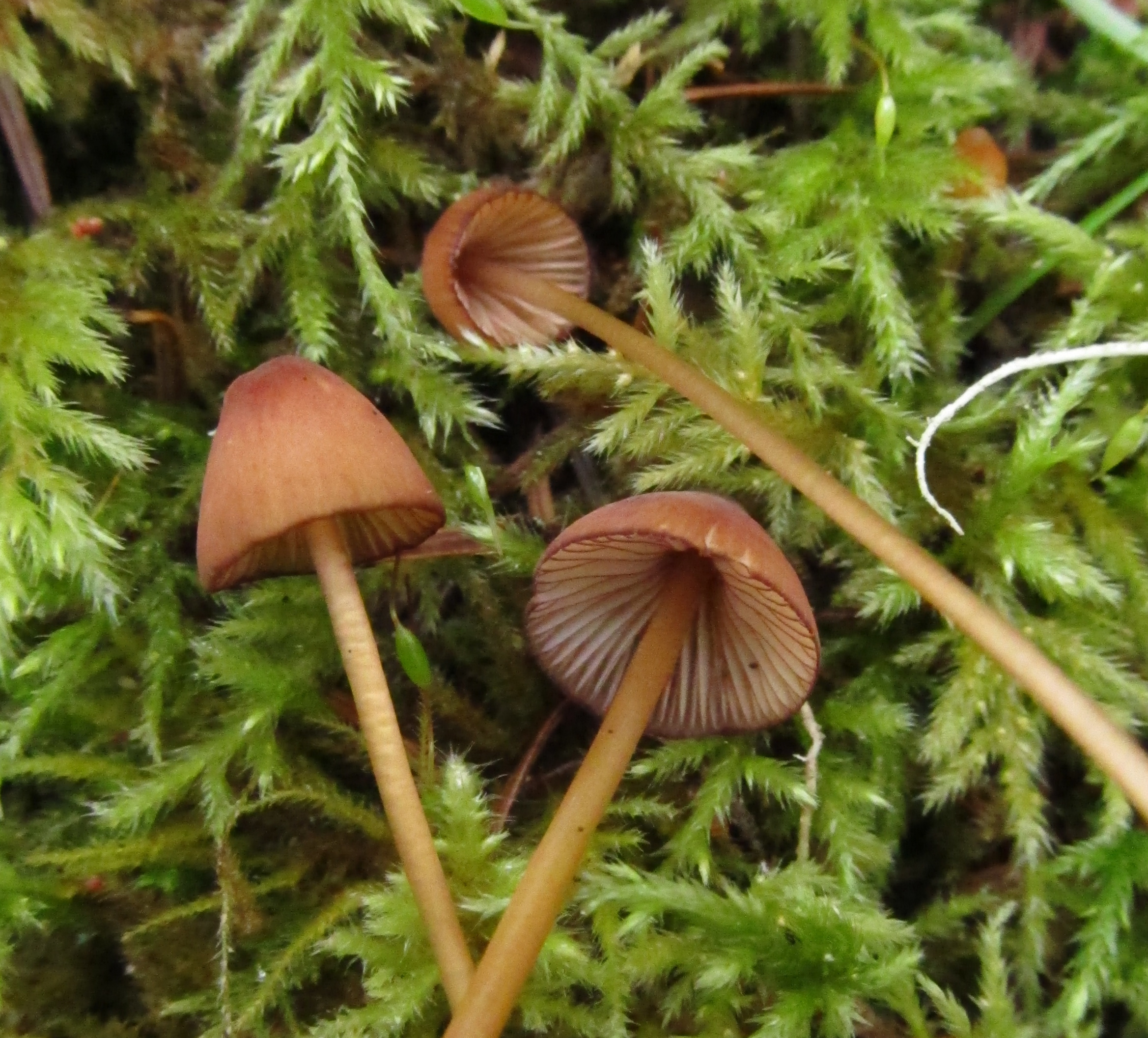 Fruit bodies of the agaric fungus Mycena sanguinolenta (Alb. & Schwein.) P.Kumm. Photographed in Mendocino, California, USA.